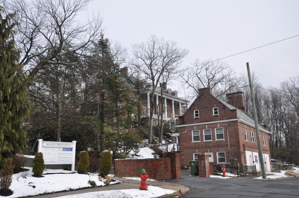 Copper Ledges, Bristol, Connecticut. The main house is up on the hill.